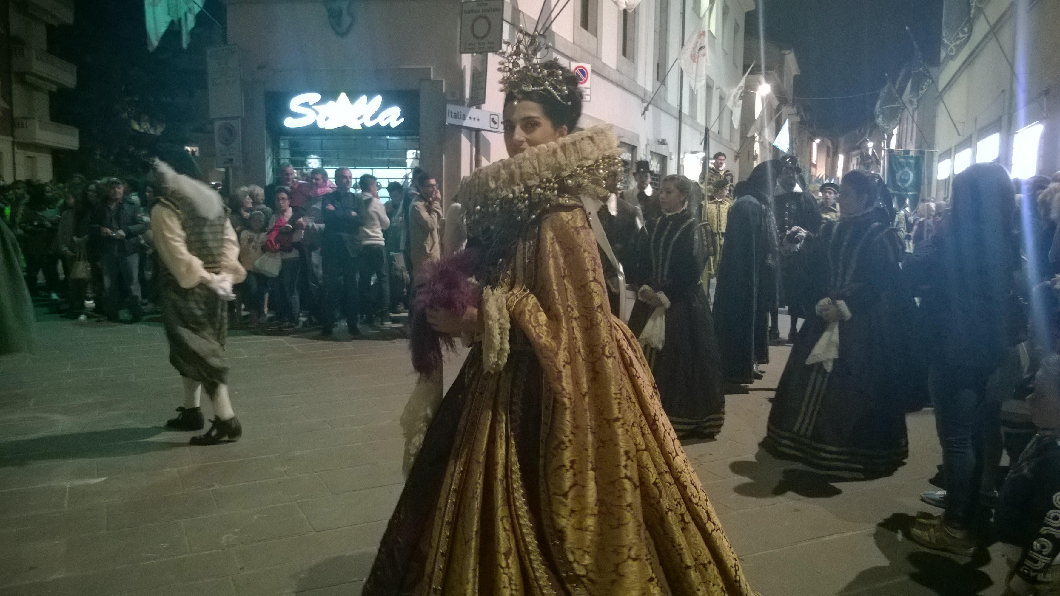 Settembre 2014